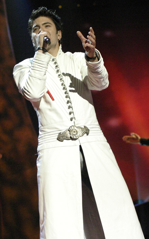 Macedonian contestant during genral rehearsal in Istanbul (cropped)